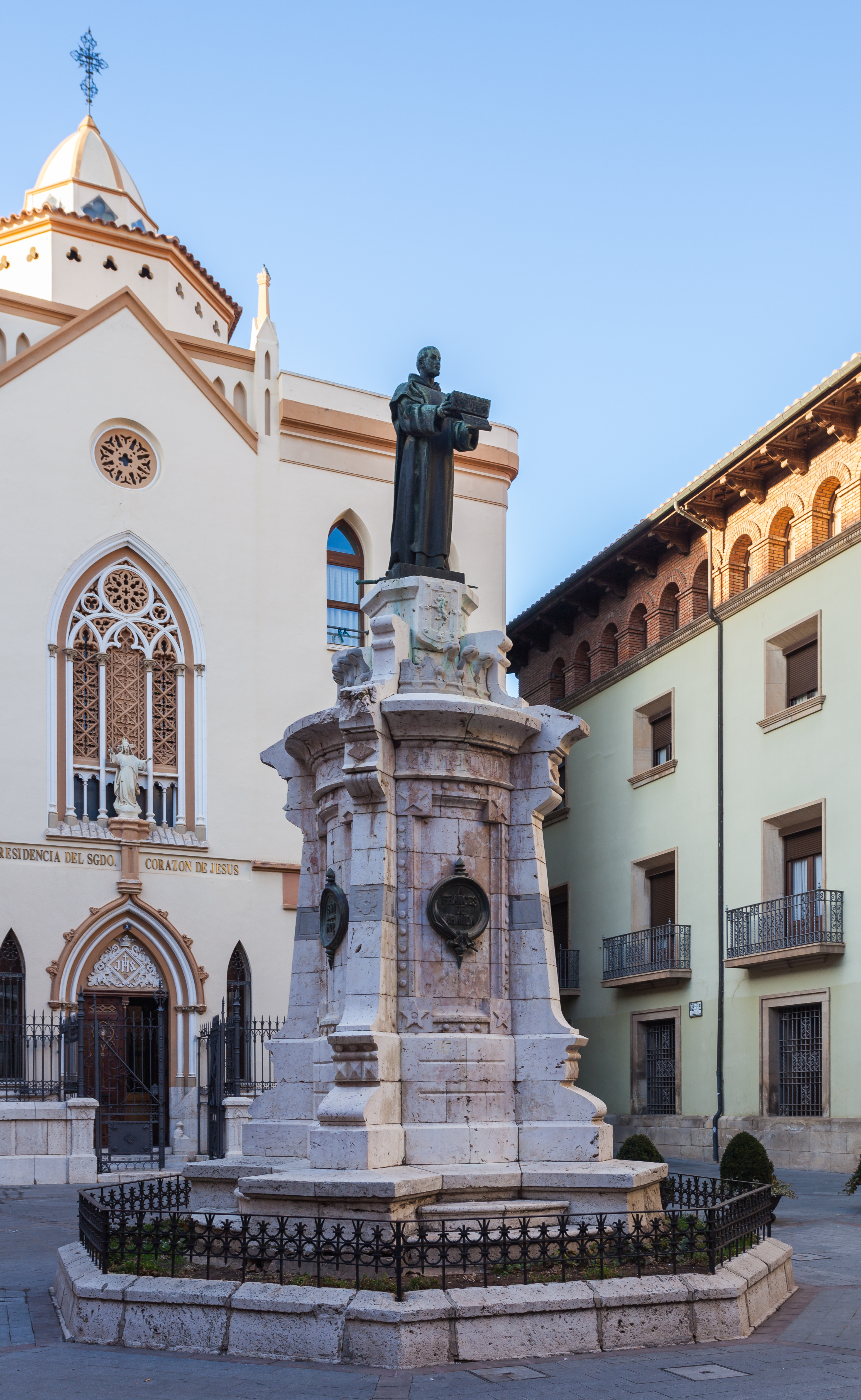 Monument to Francés de Aranda, Teruel, España